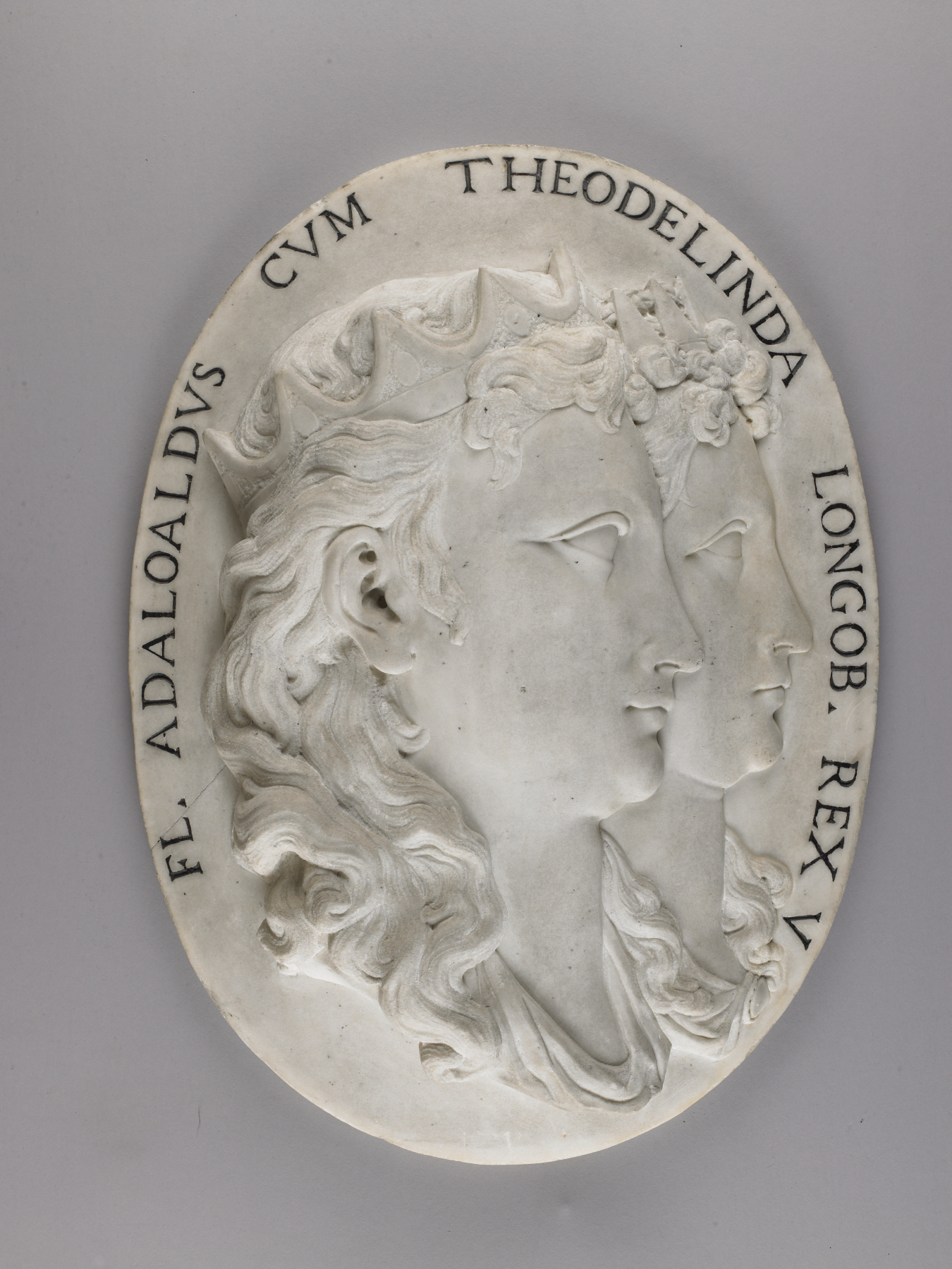 This medallion is from a series representing the early kings of Italy, for which see Walters 27.485. There are related reliefs in various European collections. The Lombard Adaloald (602-626) was king of Italy from 616-626, with his mother Queen Theolinda (ca. 570-628) as regent. She was a forceful supporter of Catholicism, building many churches.